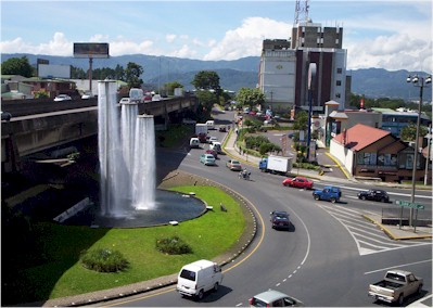 San Pedro Roundabout and "Fuente de la Hispanidad" (fountain) — Montes de Oca Canton, Metro San José,. Canton in San José Province, central Costa Rica.